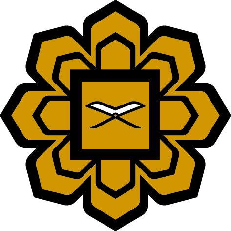 The logo of the International Islamic University Malaysia